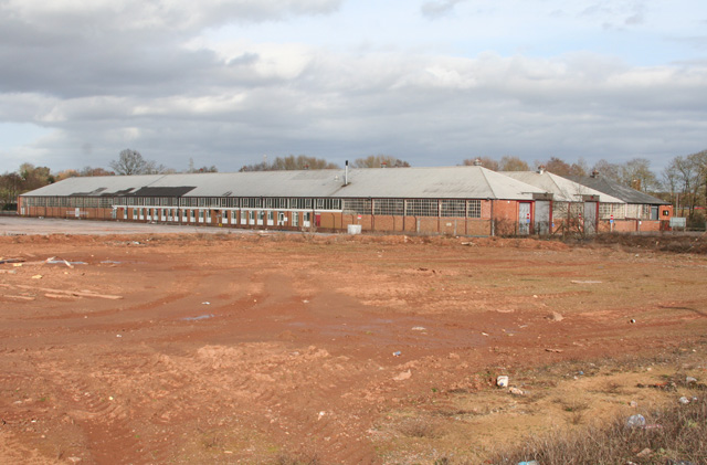 Norton Fitzwarren: World War II supply depot (part) Store Shed 1h is one of the few survivors of a major complex at Norton, erected in 1940-1 for the Royal Army Service Corps. The site was taken over by the US Army in 1942, prior to the Normandy invasion, and was then listed at General Depot G-50, one of 18 in the country. It consisted of warehouses, rail sheds and marshalling yards and eventually closed in 1966. To the north, part of the site, at Burnshill, had been utilised as a camp for Italian and later for German prisoners. The western end of the complex was built over after the war. In 2010 the remaining estate is being re-developed as a business park, now known as Langford Mead